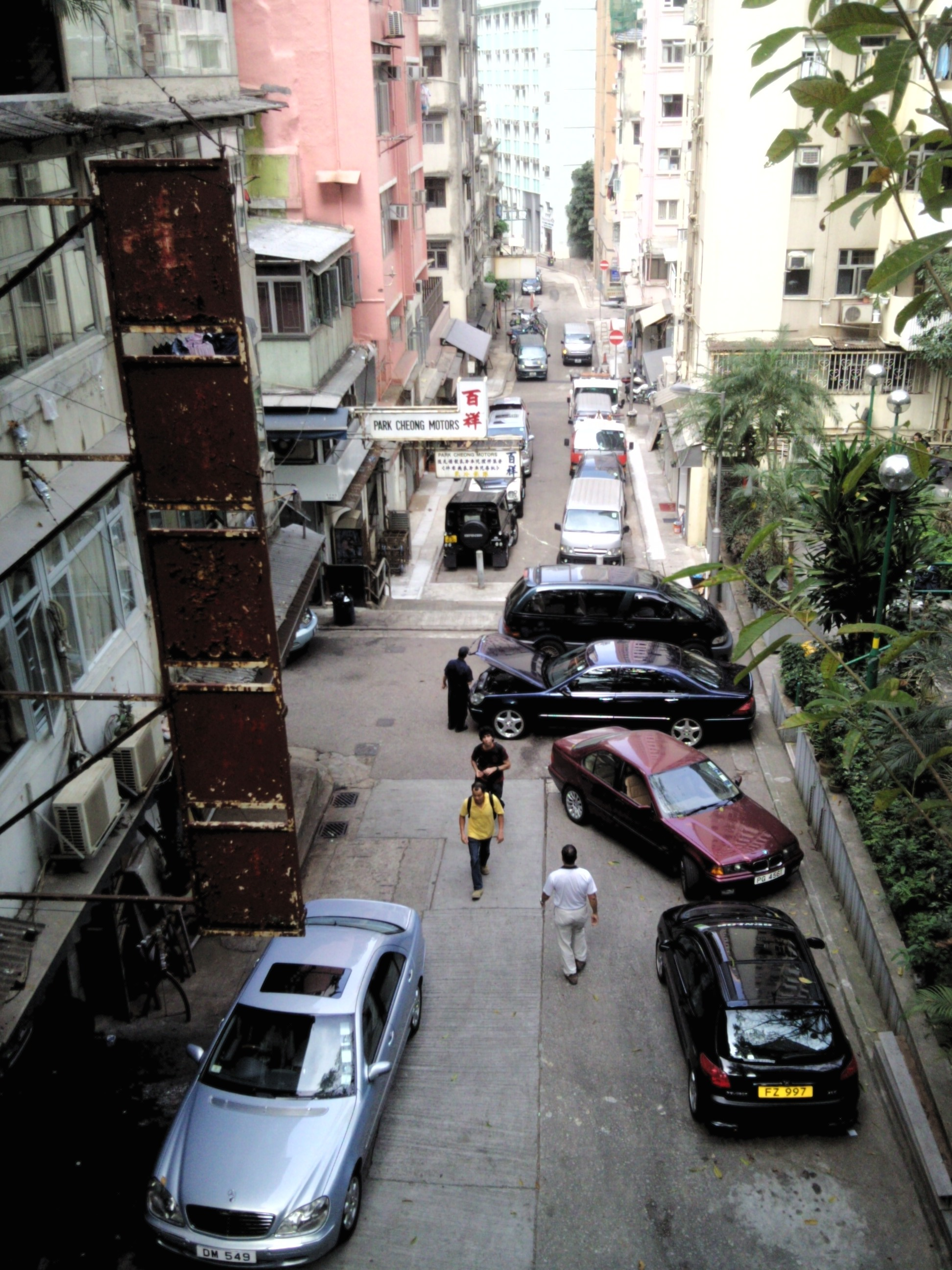 堅彌地街, Kennedy Street near Kennedy Road in Hong Kong